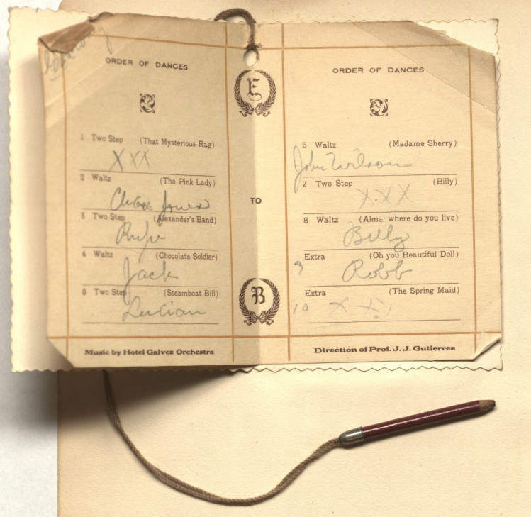 Dinner-Dance at the Hotel Galvez Programme, Order of Dances, Hand written notes